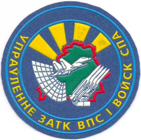 Patch of the Western Operational and Tactical Command of the Belarusian Air Forces and Air Defence Forces